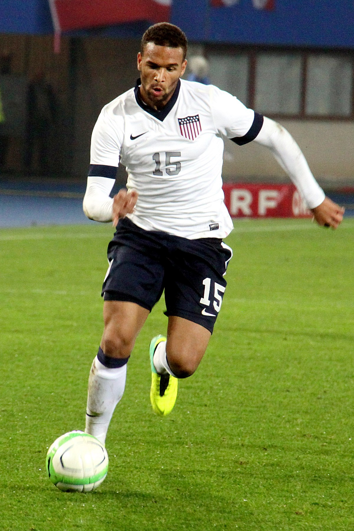 Friendly-match Austria vs. USA (1:0) in the Ernst-Happel-Stadion in Vienna at 2013-03-22. – The photo shows Terrence Boyd (USA).